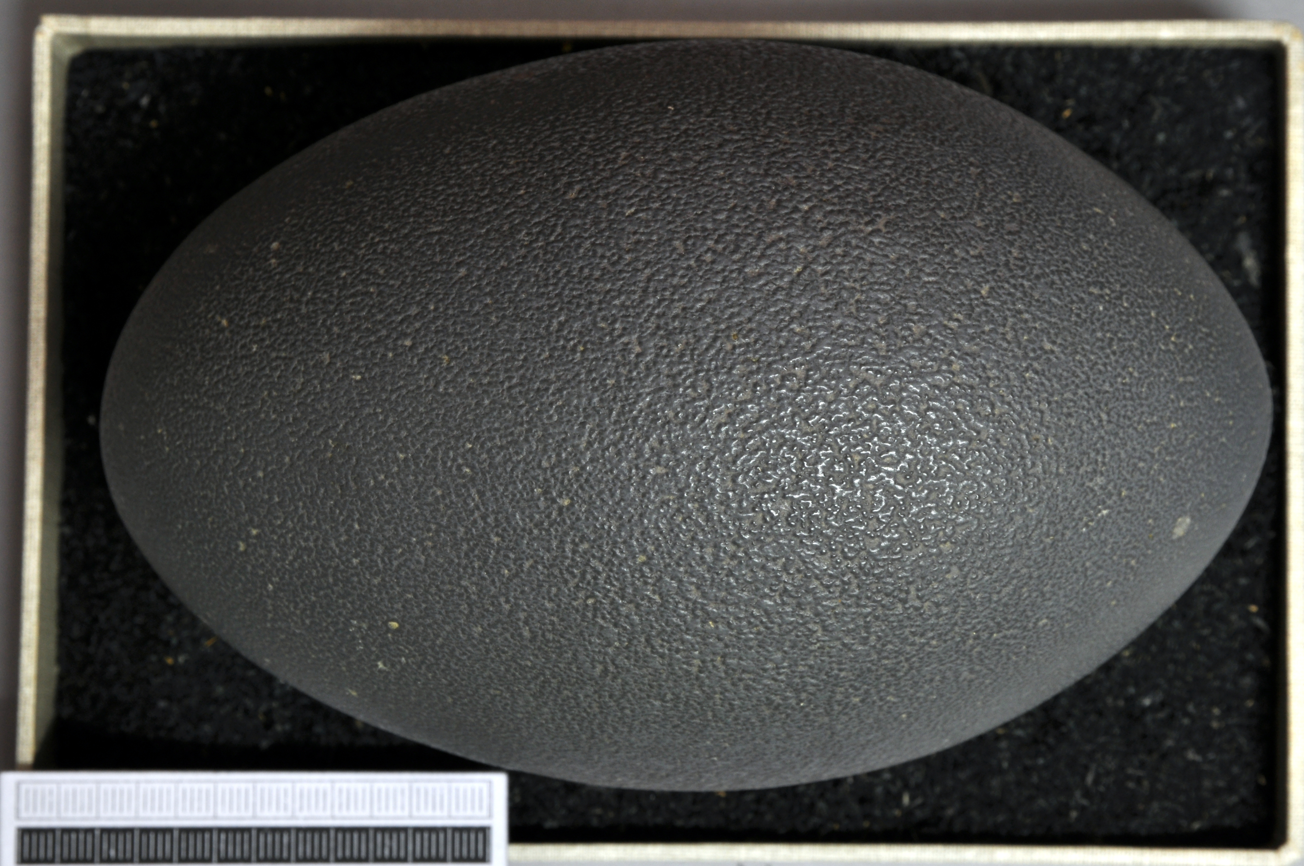 Emu Dromaius novaehollandiae , egg, Coll. Museum Wiesbaden